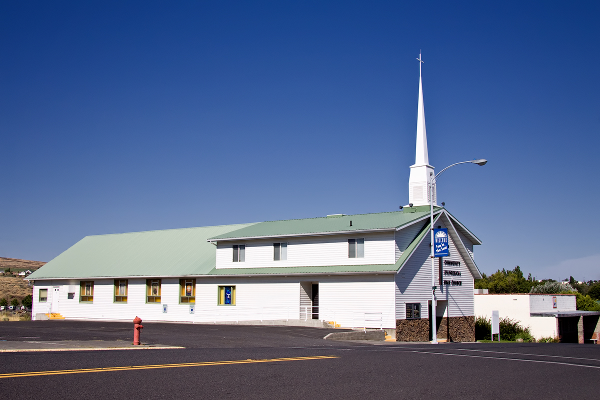 Community Evangelical Free Church. 110 Main Avenue East, Soap Lake, WA 98851 Website